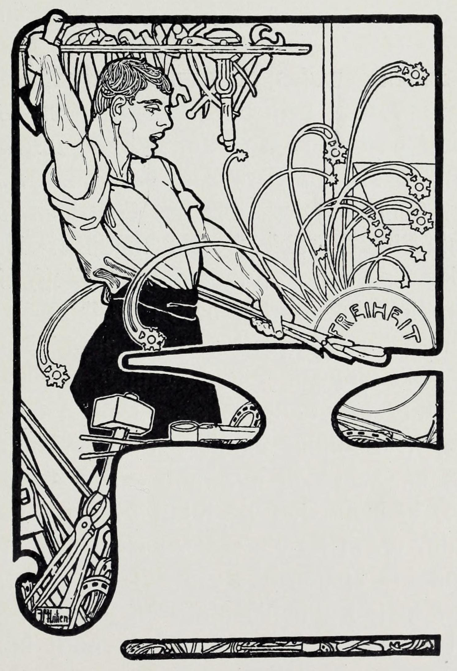 Blacksmith, by Ephraim Moses Lilien (1874–1925) Alternative namesEphraim Moses Lilien; Ephraim Lilien; Lilien; E M Lilien; אפריים משה ליליאן; אפרים משה ליליאן; א.מ. ליליין; א"מ ליליין; אפרים ליליאן; אפרים משה לילין; ליליין, אפרים משה־־תערוכות; לילין, אפרים משה בן יעקב; אפרים משה ליליען; E. M. Lilien; Ephraim Moshe Lilien; Ephraim Mose Lilien; Efrayim Mosheh Lilyan; Efrayim Mosheh Liliyan; Lilien, E. M.; Lilien, Efrayim Moshe; Lilien, Ephraim Mose Ben Jacob Hakohen; Lilien, Ephraim Moses; Lilyen, Efrayim MošeDescription Austrian Israeli artistDate of birth/death23 May 187418 July 1925Location of birth/deathDrohobychBadenweilerAuthority control VIAF: 59876406 ISNI: 0000 0001 1065 1227 ULAN: 500040863 LCCN: n81093755 GND: 118572938 SELIBR: 235222 SUDOC: 06844902X NKC: xx0157212 NLP: A11392629 RKD: 252568 NLI: 000084584 WorldCat .